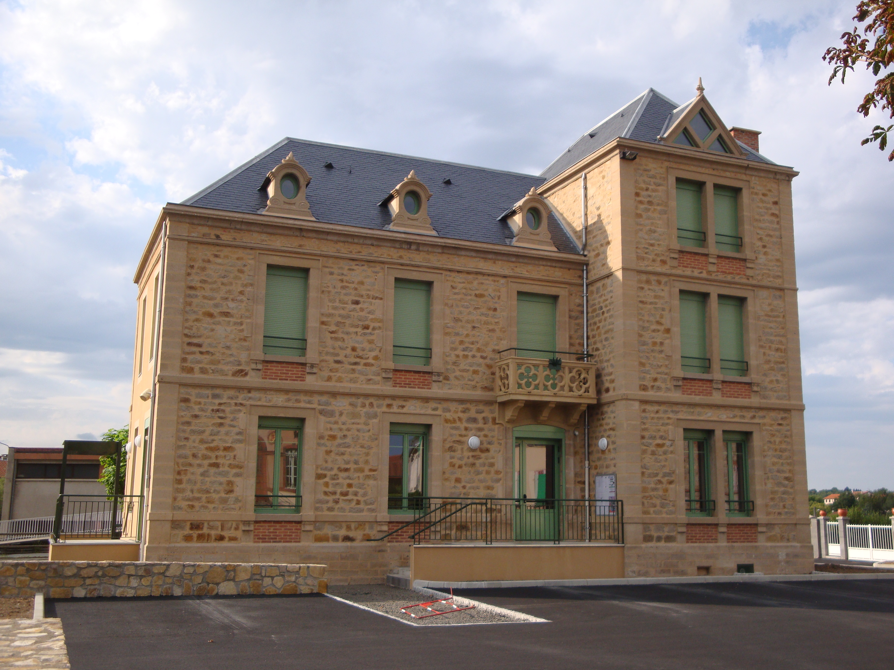 Town hall of Vergongheon (43360), Haute-Loire, France after renovation works in 2011.